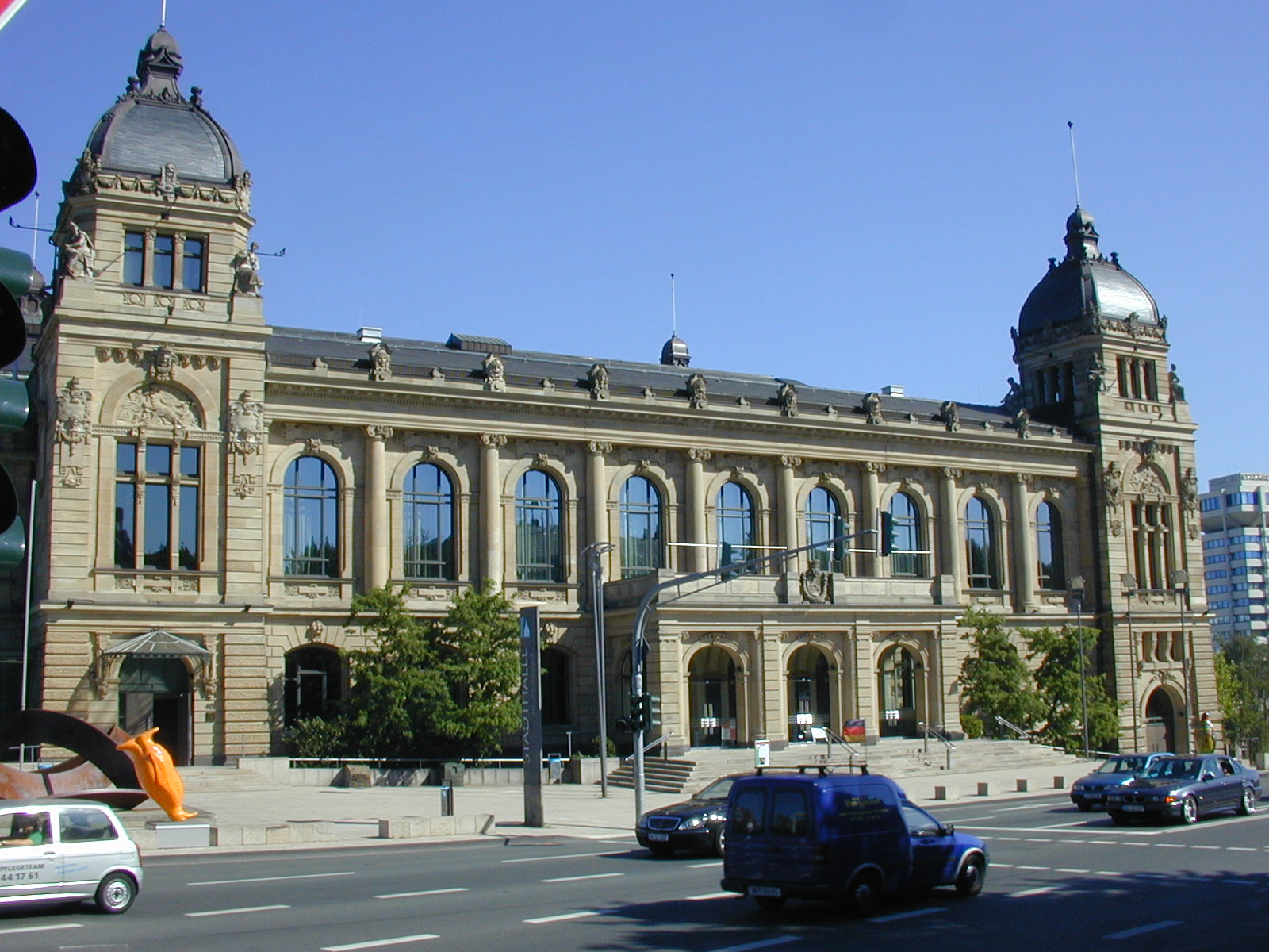 Wuppertal "Stadthalle", extreme left: sculpture Raumsegmente Rondo (1999) by Alf Lechner/Germany